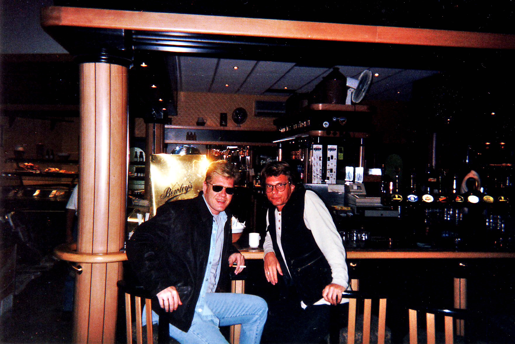 The thing that is drawing your attention is not his junk. It's a money belt or something